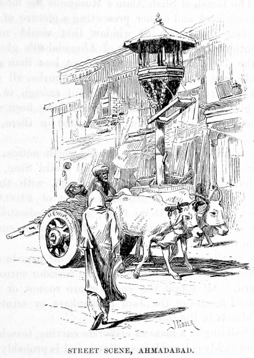 Image taken from: Title: "Picturesque India. A handbook for European travellers, etc. [With maps.]" Author: CAINE, William Sproston. Shelfmark: "British Library HMNTS 010057.ee.7.", "British Library OC ORW.1986.a.2996" Page: 107 Place of Publishing: London Date of Publishing: 1890 Publisher: G. Routledge & Sons Issuance: monographic Identifier: 000567709 Note: The colours, contrast and appearance of these illustrations are unlikely to be true to life. They are derived from scanned images that have been enhanced for machine interpretation and have been altered from their originals. If you wish to purchase a high quality copy of the page that this image is drawn from, please order it here. Please note that you will need to enter details from the above list - such as the shelfmark, the page, the book's volume and so on - when filling out your order. Explore: Find this item in the British Library catalogue, 'Explore'. Open the page in the British Library's itemViewer (page: 107) Download the PDF for this book Click here to see all the illustrations in this book and click here to browse other illustrations published in books in the same year. Please click on the tags shown on the right-hand side for other ways to browse the illustrations.